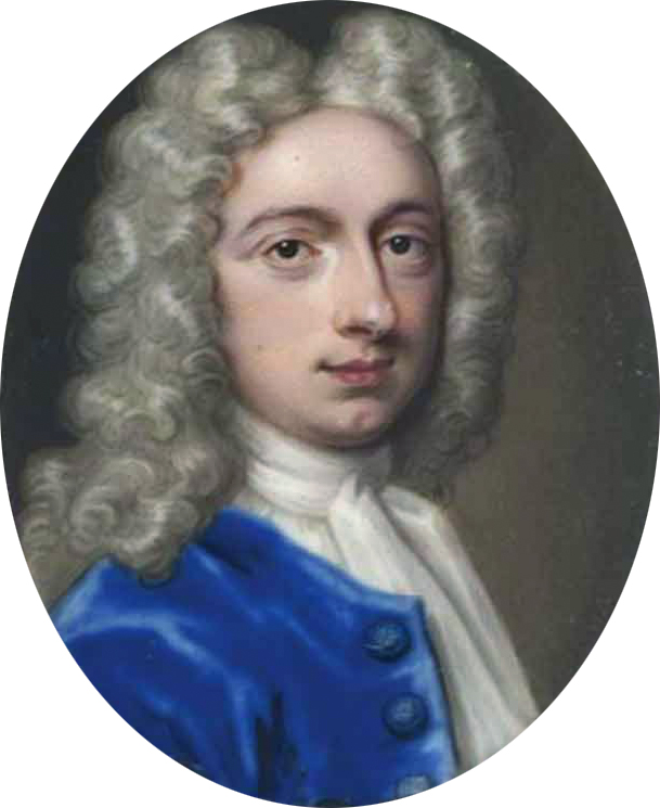 Peregrine Hyde Osborne, 3rd Duke of Leeds (1691-1731) enamel oval, 48 mm high